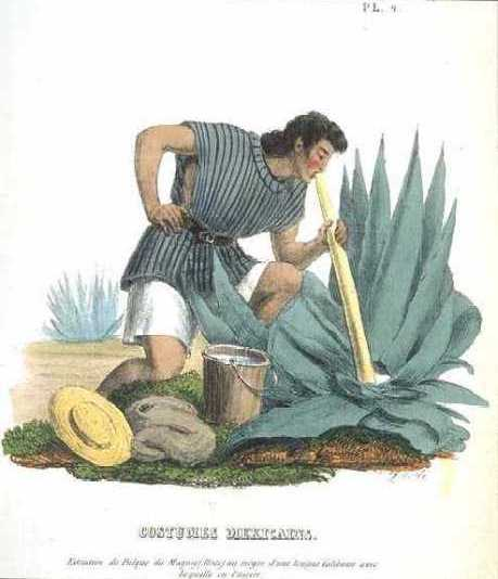 An early tlaquichero removes aguamiel from the heart of the maguey by sucking it out with a long gourd, collecting up to six liters of aguamiel per day from a single plant. Aguamiel is not an alcoholic beverage. Rather, it is a soft drink, sweet, transparent, and refreshing. Once it ferments, however, it becomes the alcoholic drink pulque, also known as octli.